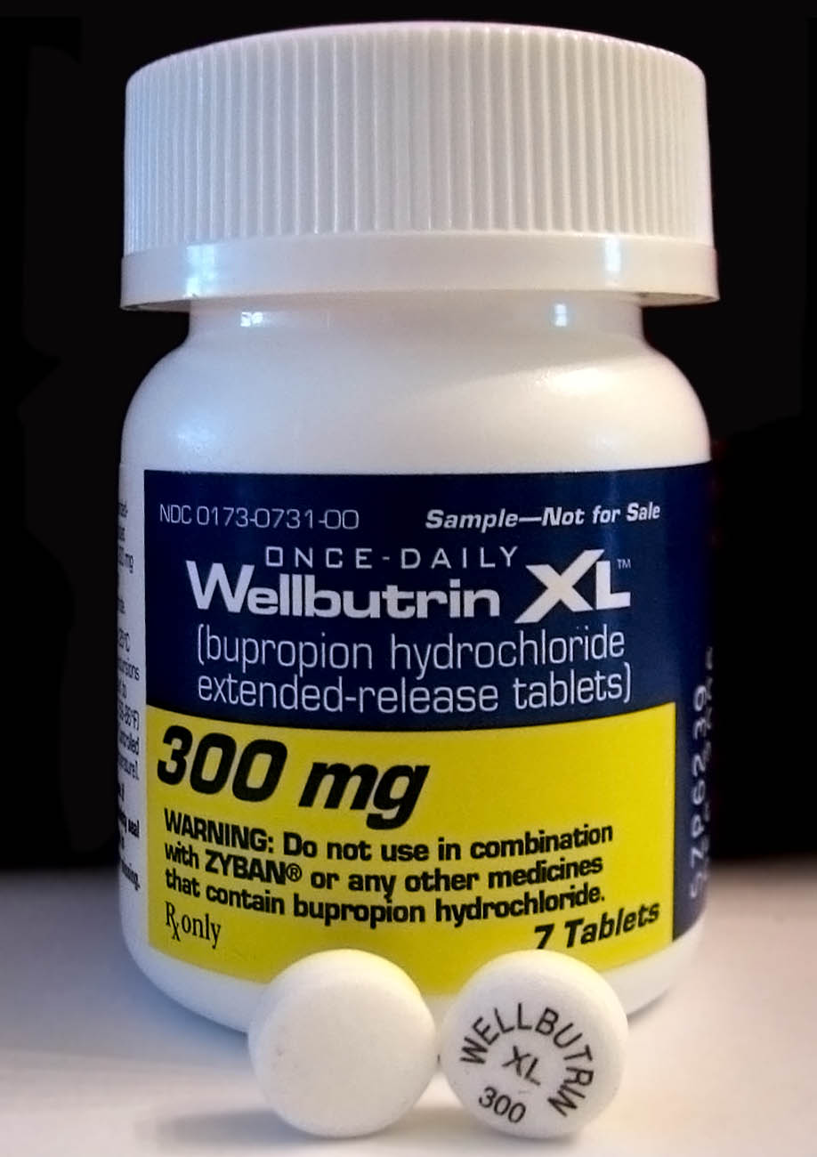 The antidepressant Wellbutrin XL (bupropion HCl, 300mg): bottle and tablets.